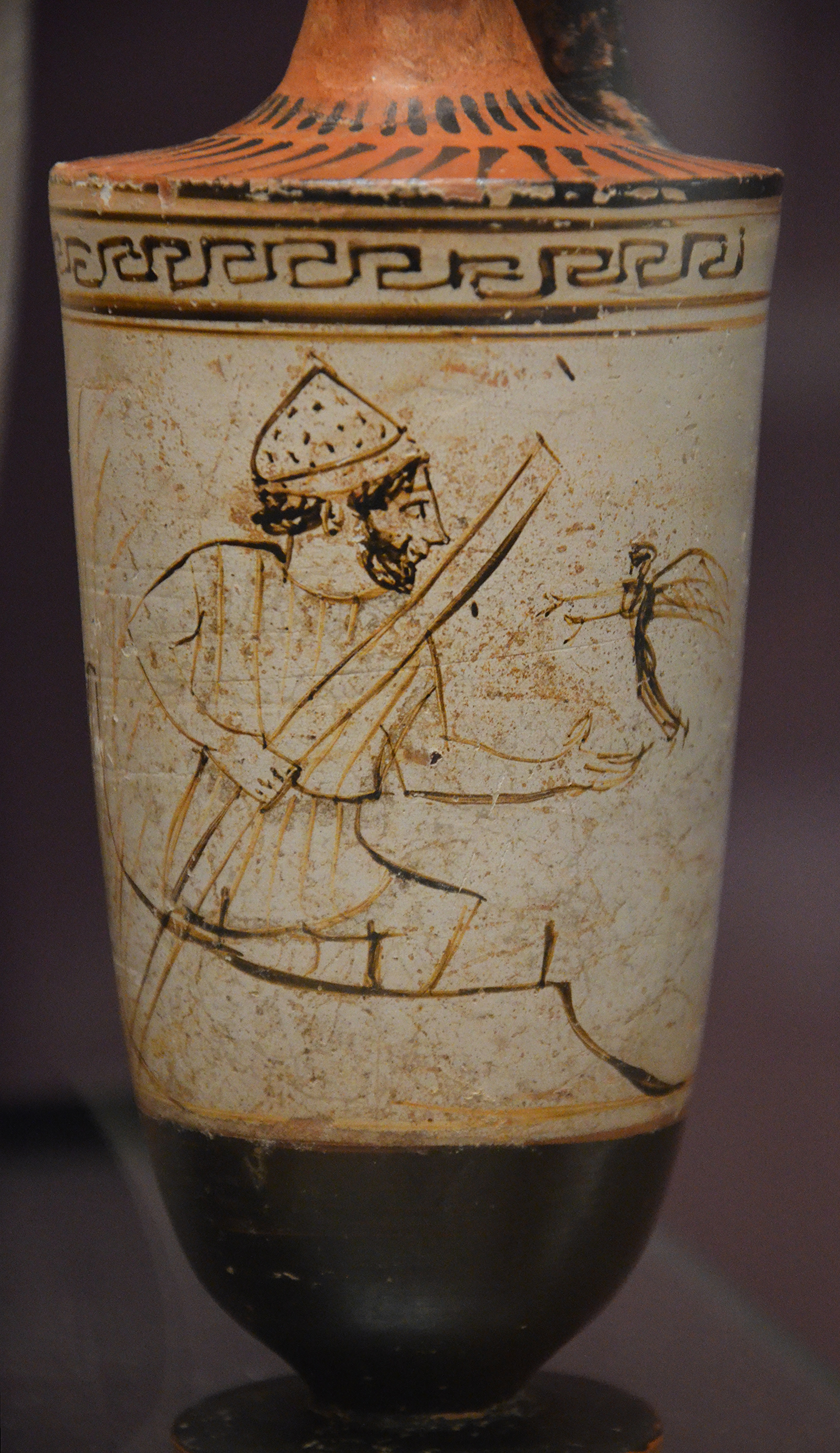 Charon prepares to receive the shade of a youth into his skiff. The ferryman leans on his pole and is surrounded by the reeds of the river Acheron (one of the five rivers of the Greek underworld).